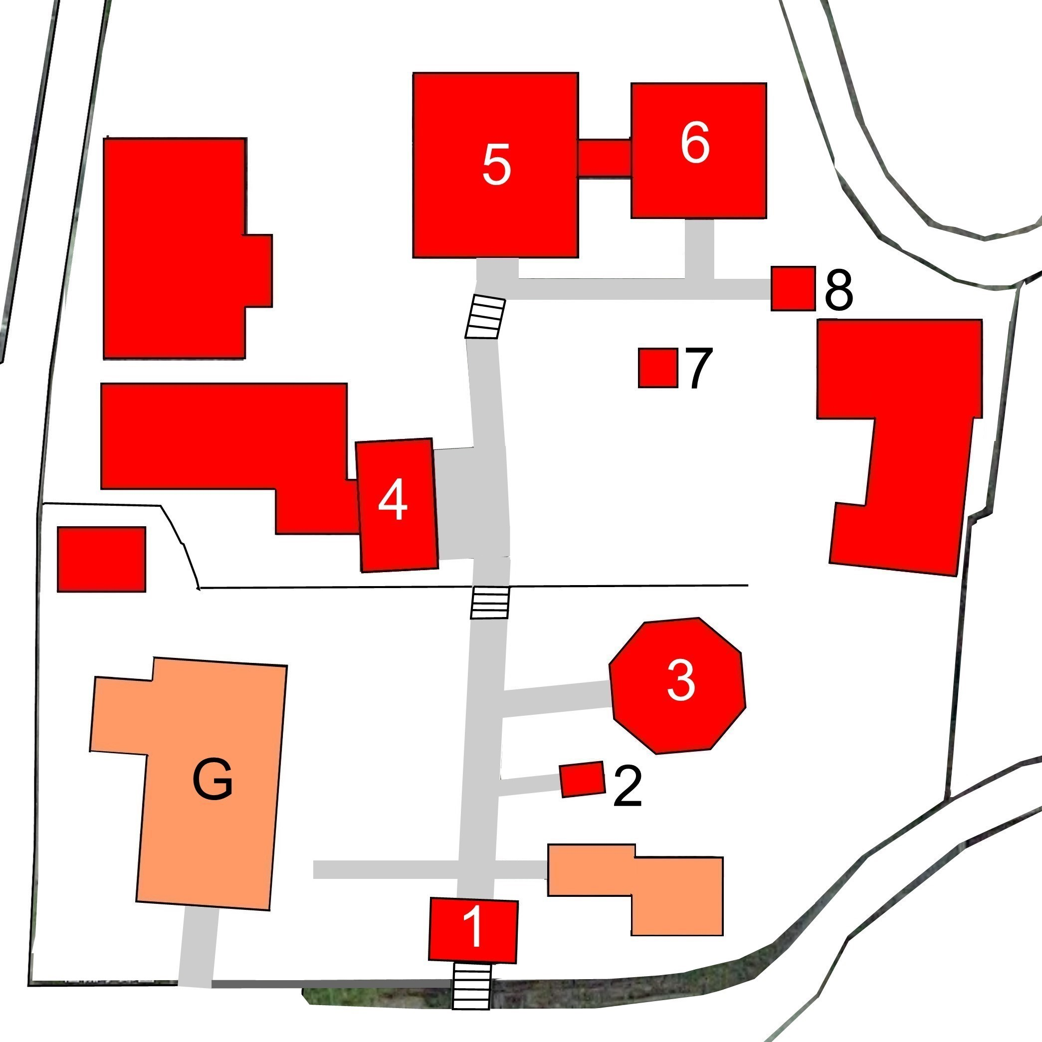 Layout of Kanjiza Temple